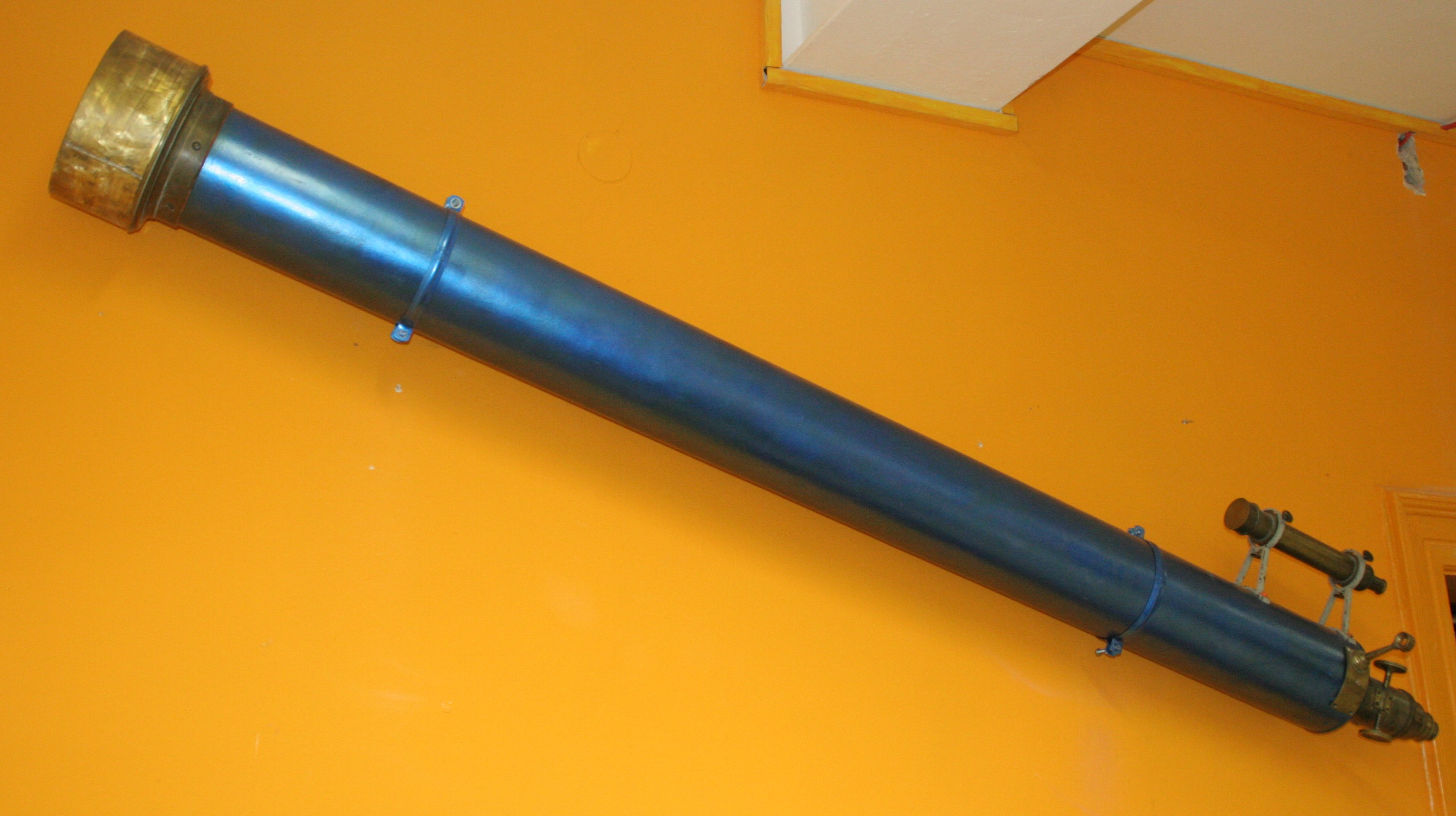 Old 150 mm Reinfelder refracting telescope at the Observatory in Regensburg. Year of manufacture circa 1905